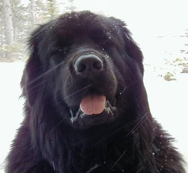 Newfoundland (dog) photo:Ziga 08:38, 28 February 2007 (UTC)